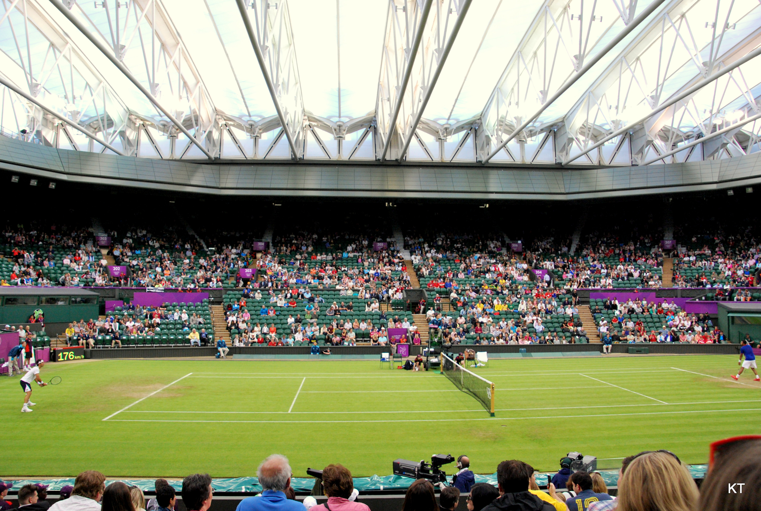 Jo-Wilfried Tsonga v Thomaz Bellucci.